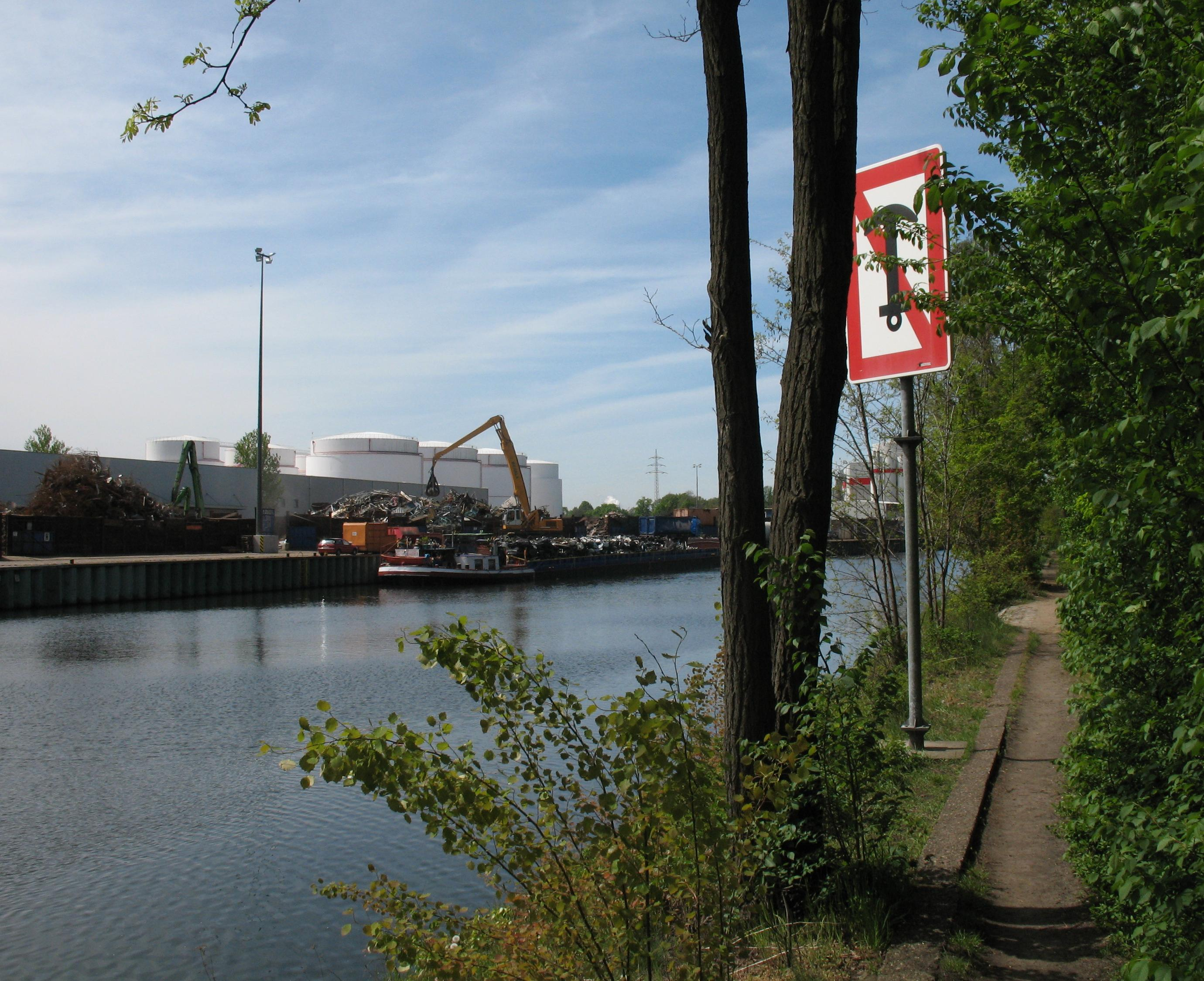 Canal and west harbour in Berlin-Moabit, Germany